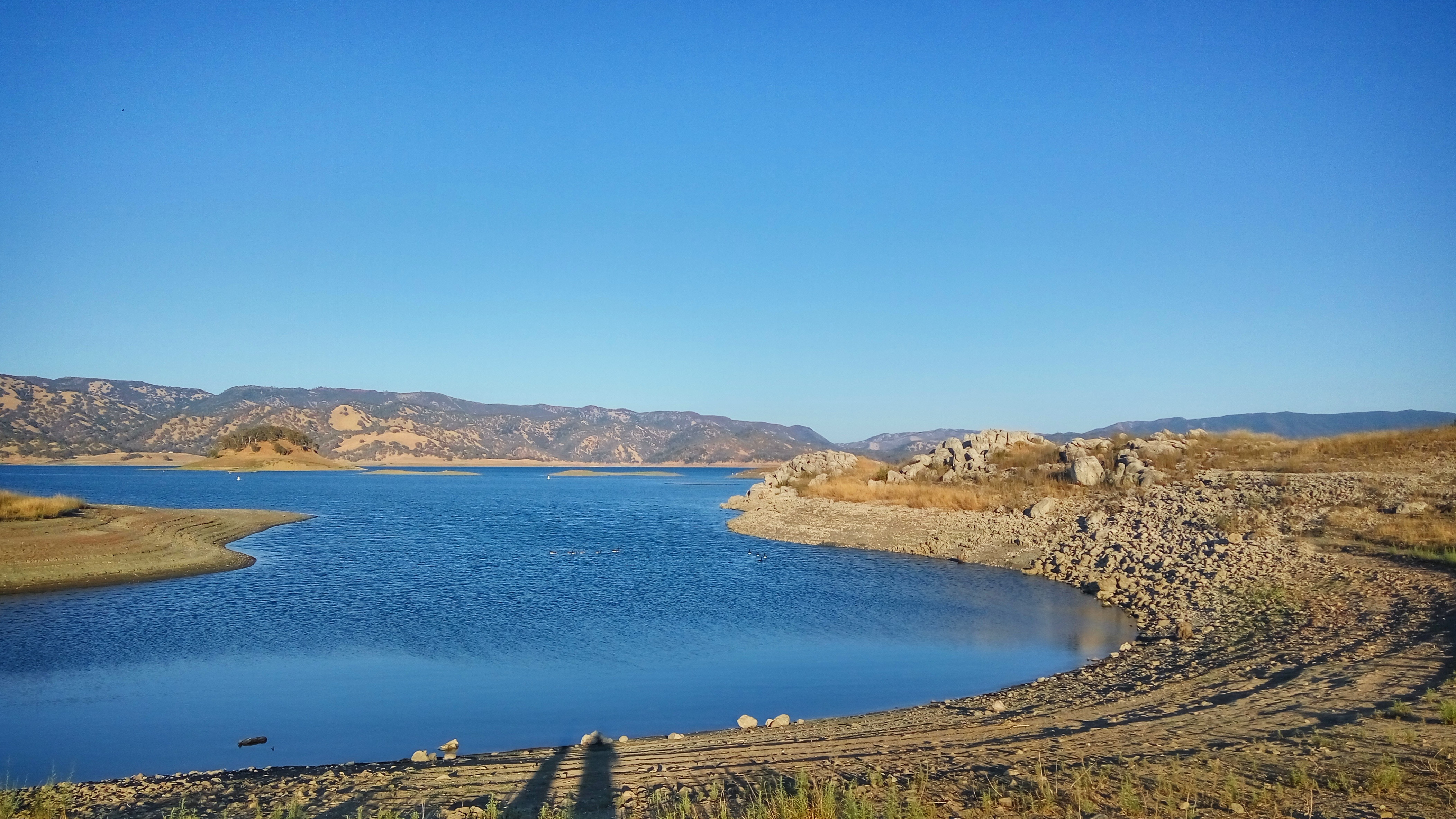 A view of Lake Berryessa in Napa Valley.